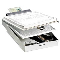 Police Clipboard showing several compartments for storing: Documents, Citations, Crime reports and statements.